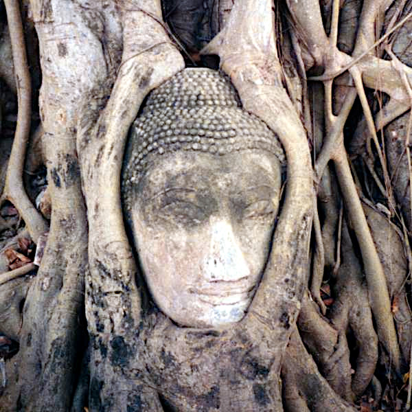 Buddha figure overgrown by fig in Wat Mahatat in Ayutthaya historic park, Thailand. According to a local tour guide, the tree is about 50 years old.